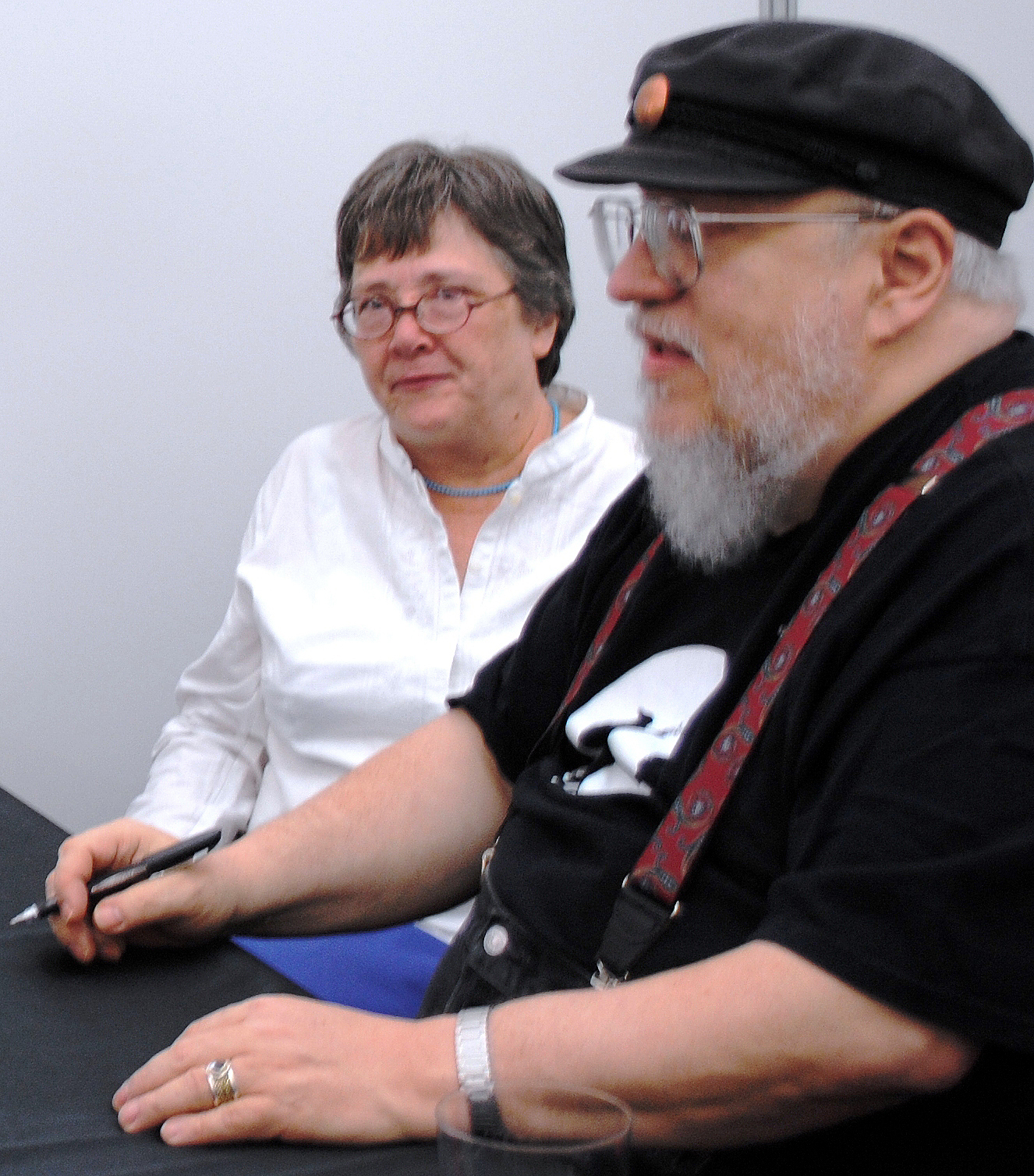 Lisa Tuttle and George R. R. Martin